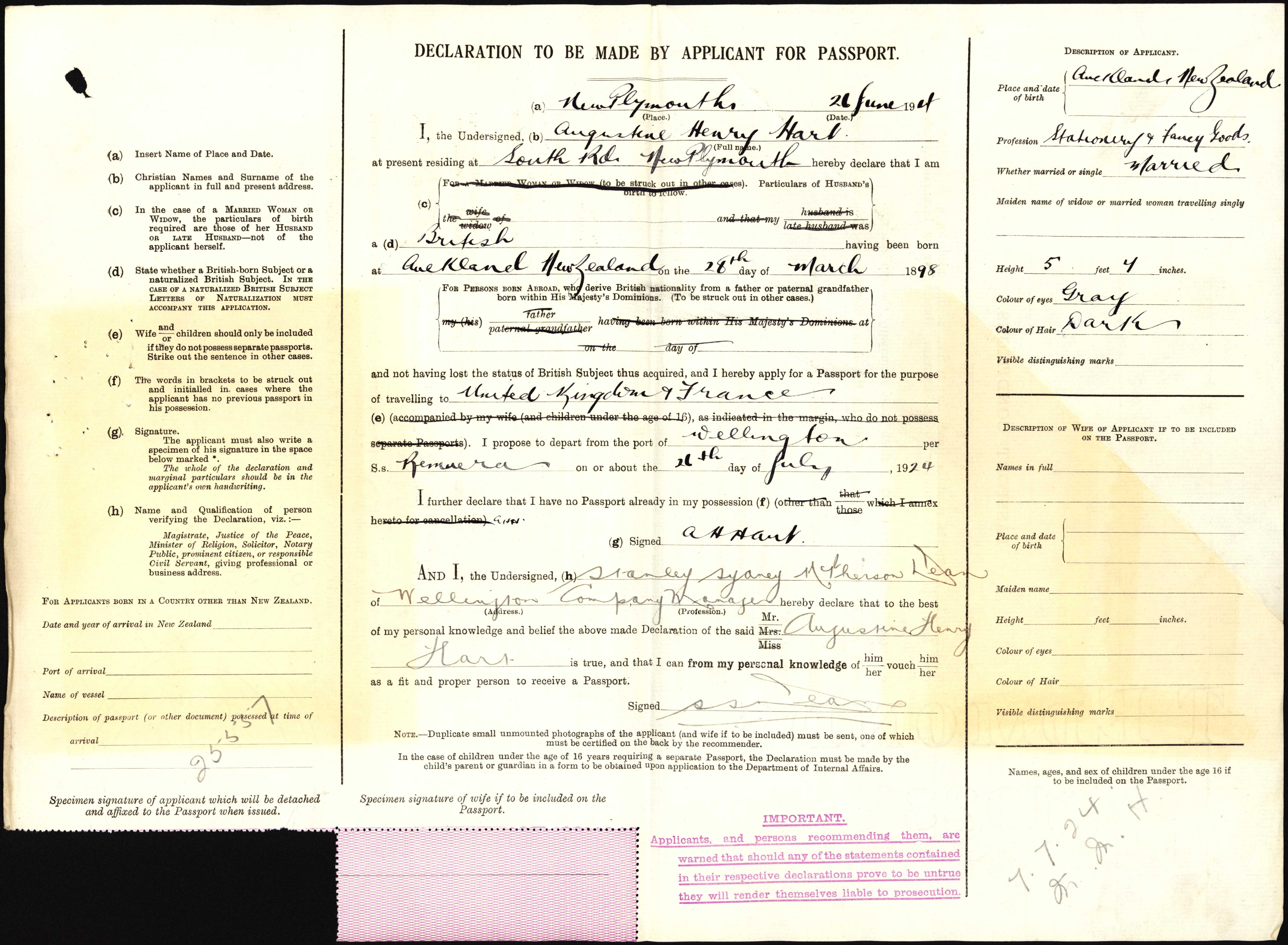 ACGO 8333 IA1 1349 / 15/11/17721 Augustine Hart passport application (1924)